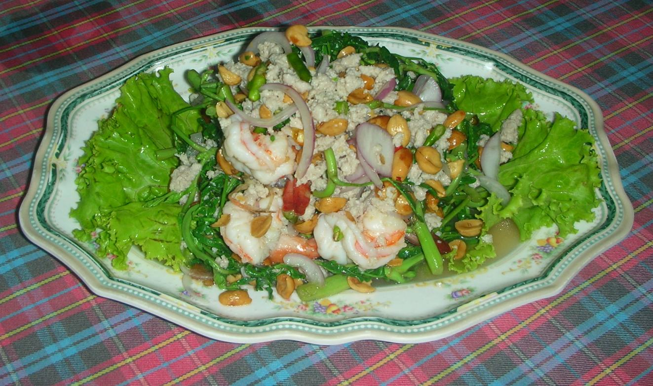 Yam phak krachet: Water Mimosa (phak krachet) salad. Kanchanaburi district